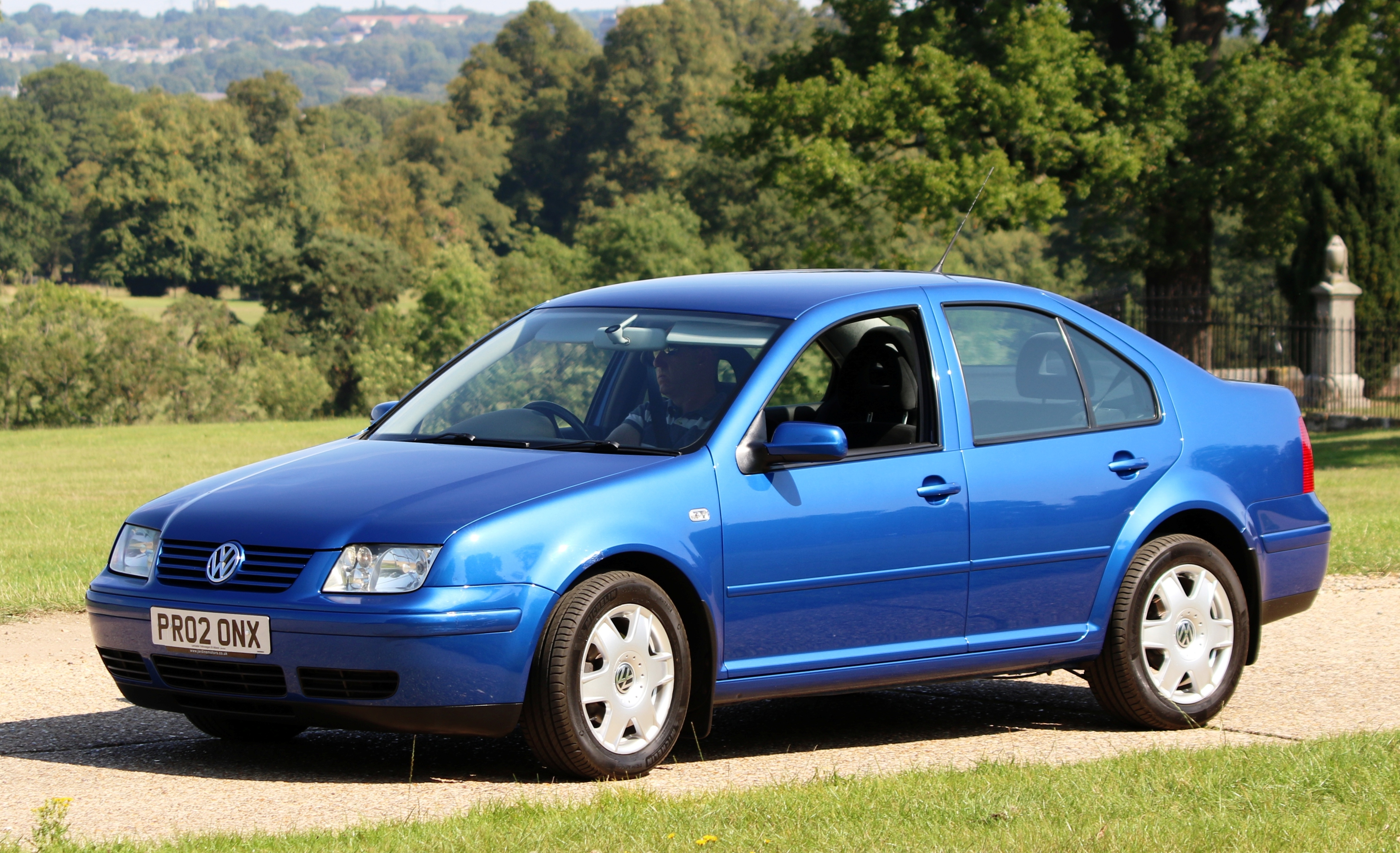 Volkswagen Jetta registered March 2002 1984cc